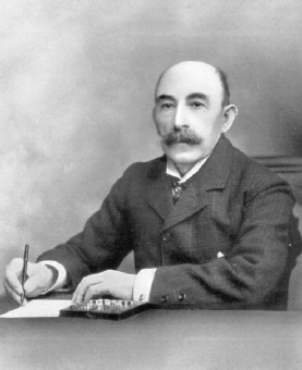 Chess player and journalist Leopold Hoffer (1842-1913).